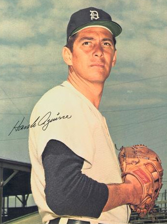 Professional baseball player Hank Aguirre